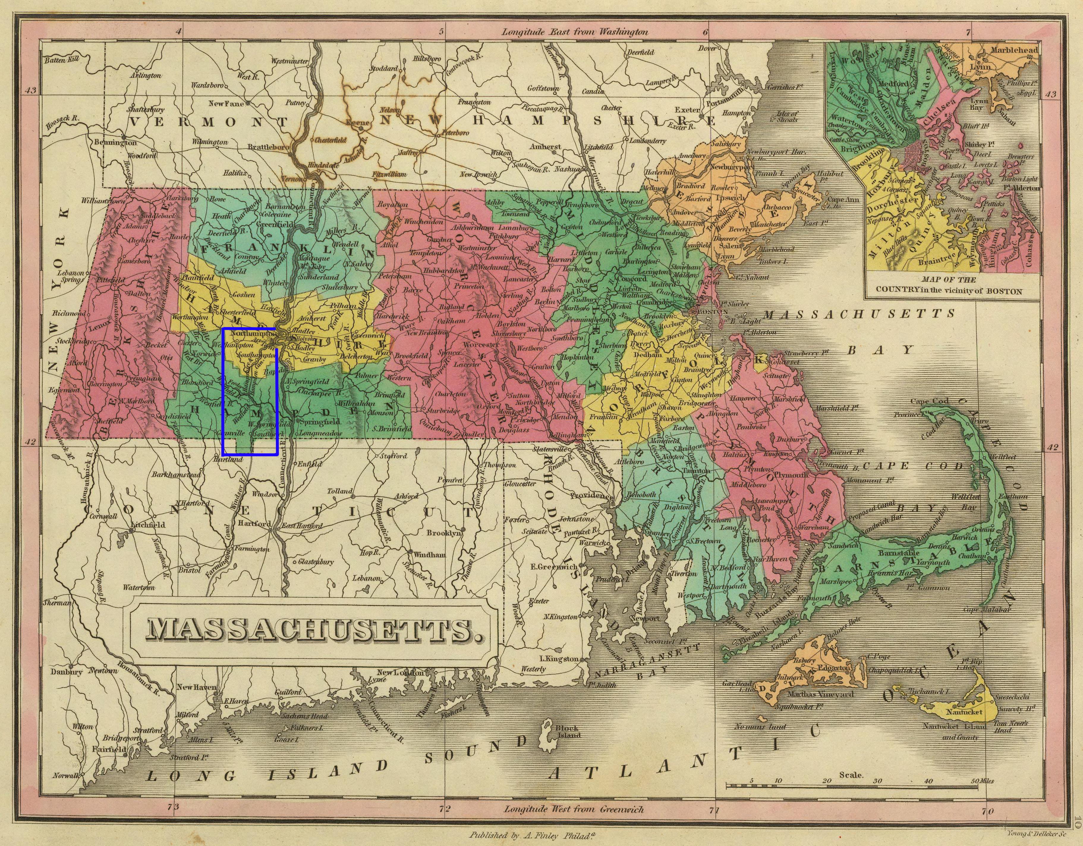 Map of Massachusetts, USA, and portions of neighboring states, with highlighting added for the Hampshire and Hampden Canal.